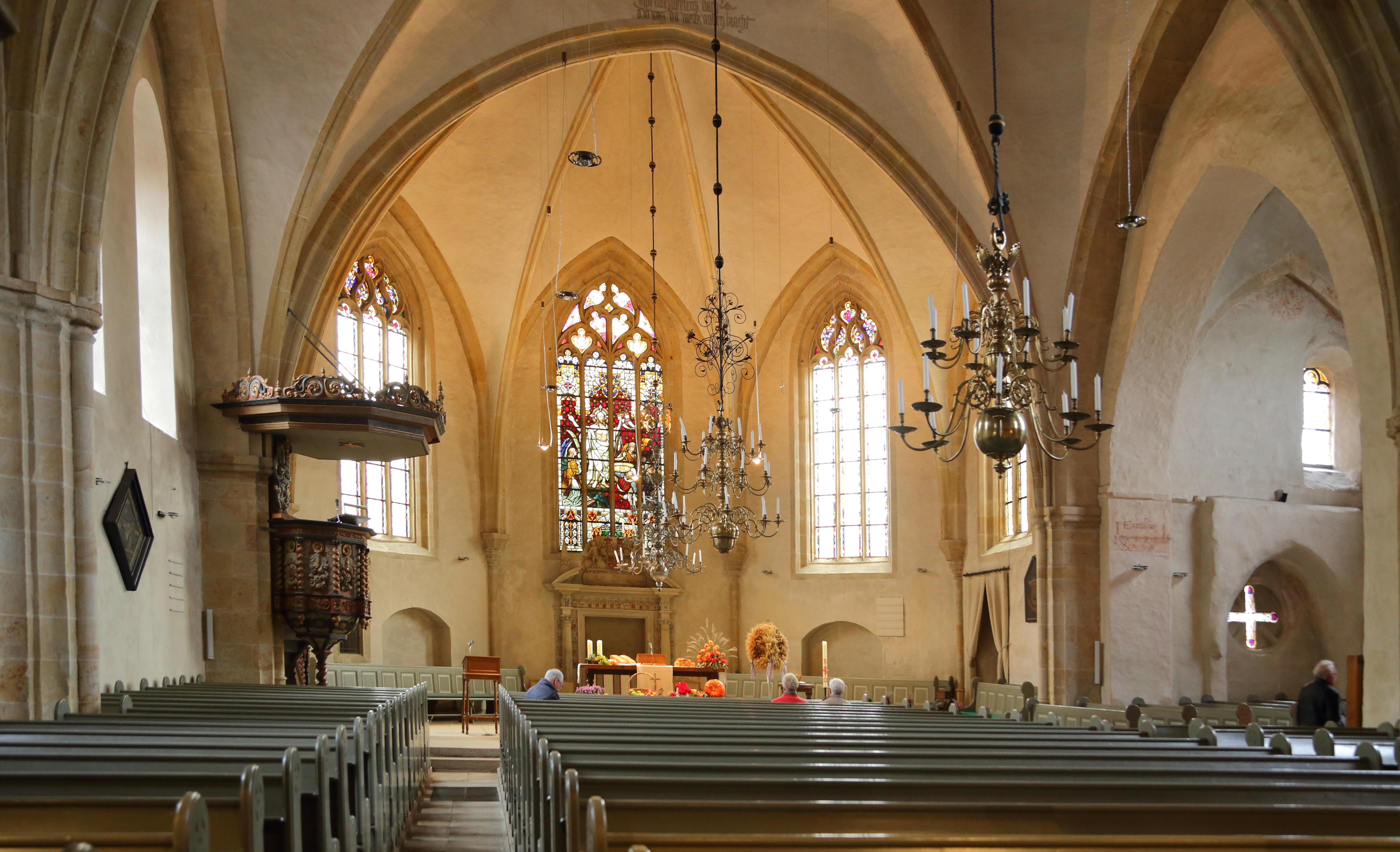 Interior of the Protestant City Church (Evangelische Stadtkirche) Westerkappeln, Kreis Steinfurt, North Rhine-Westphalia, Germany.